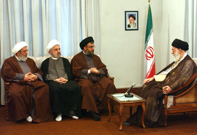 Hizbullah Secretary-General and his delegation meeting with Seyyed Ali Khamenei in 2005